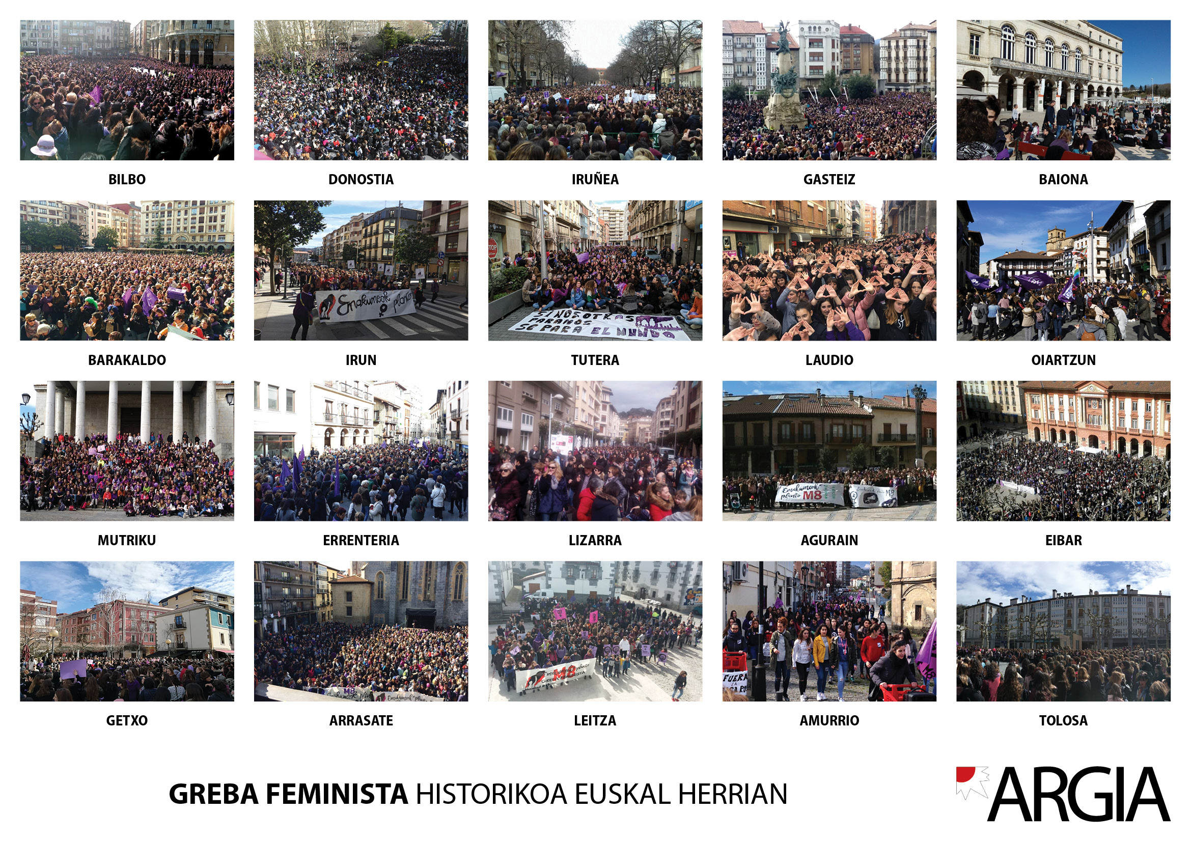 Demonstrations across the Basque Country during the 8 March 2018 strike